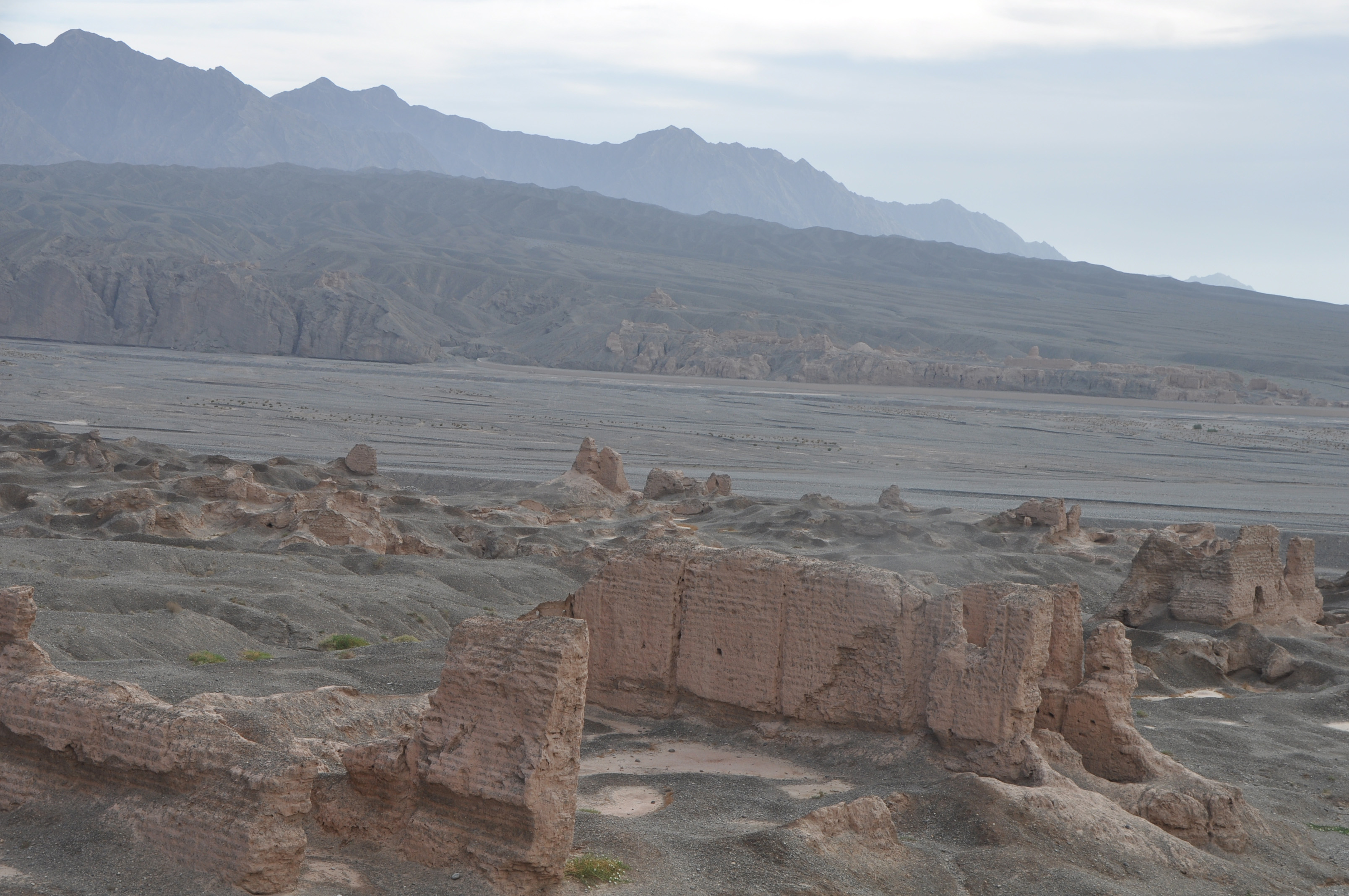 Subashi Buddhist Temple Ruins - East Area, Kuqa, Xinjiang, China